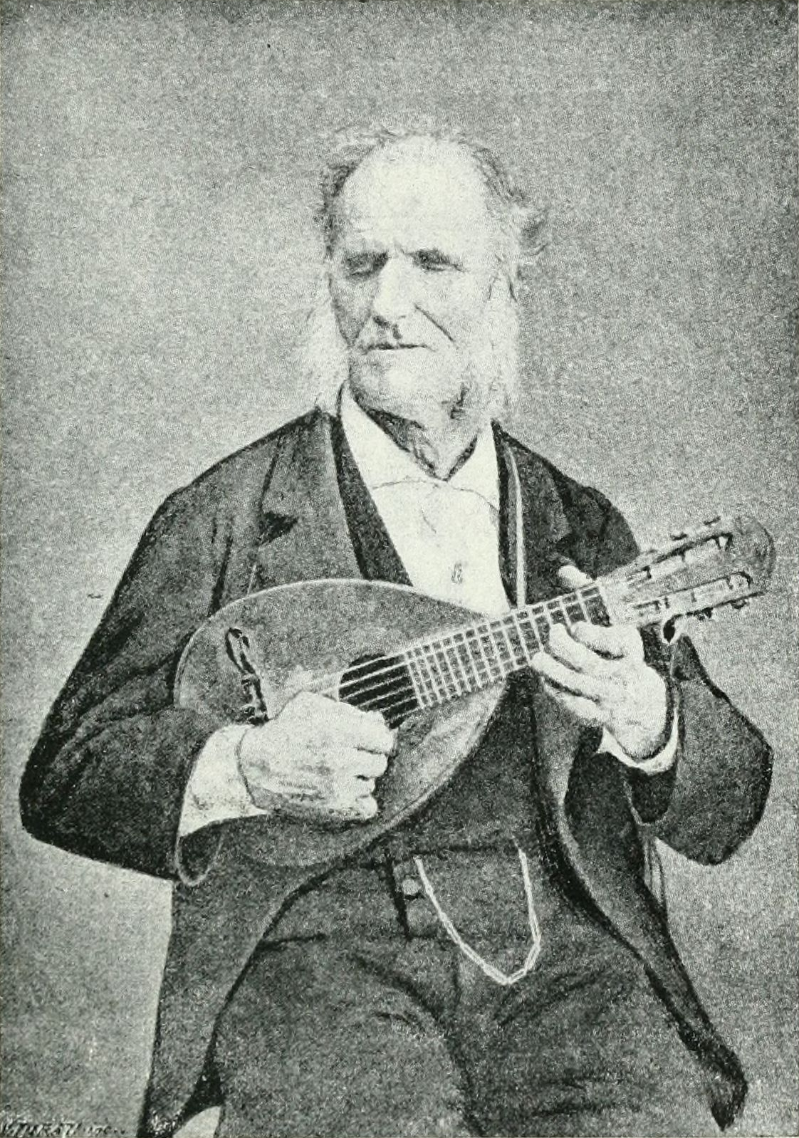 Italian mandolinist Giovanni Vailati from the book The Guitar and Mandolin by Phillip J. Bone.